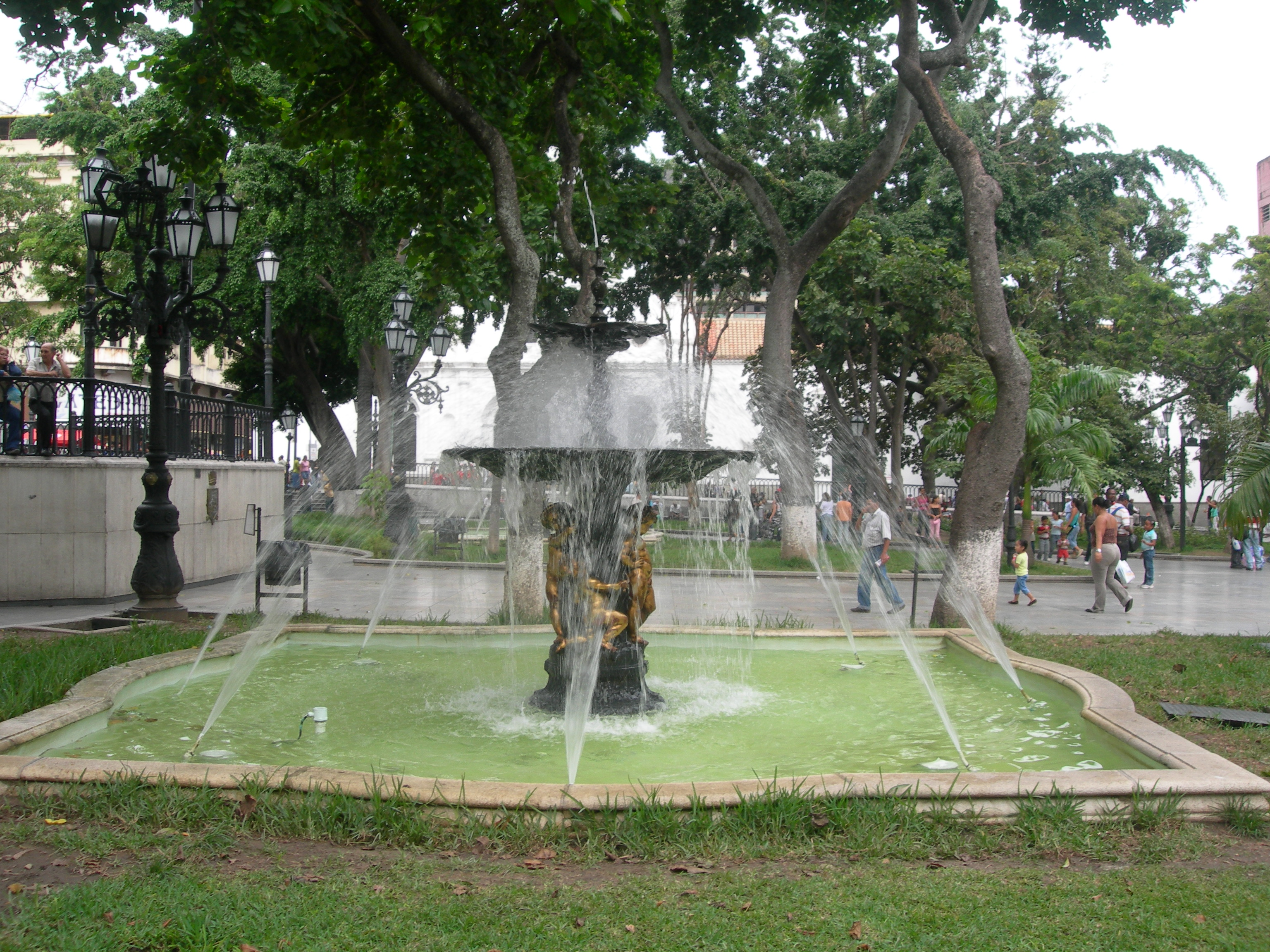 Fountain located in Plaza Bolívar of Caracas (Venezuela).